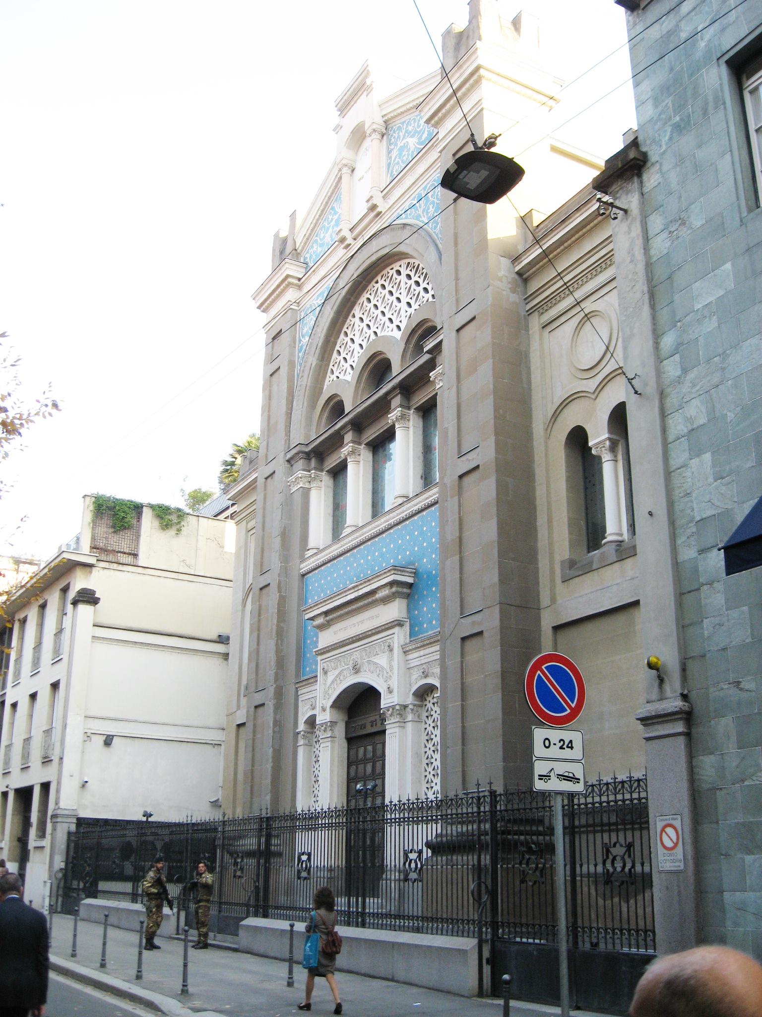 The Synagogue in Milan